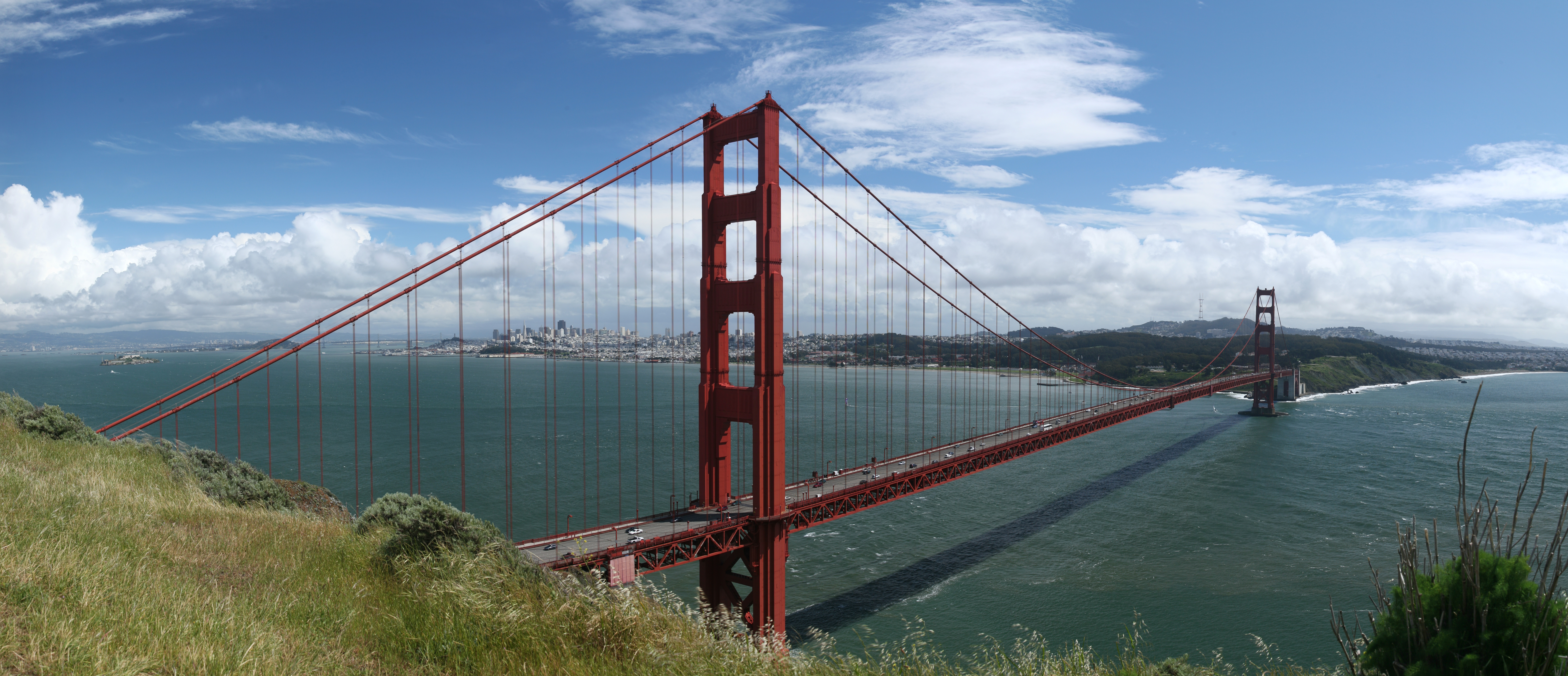 Golden Gate with Golden Gate Bridge